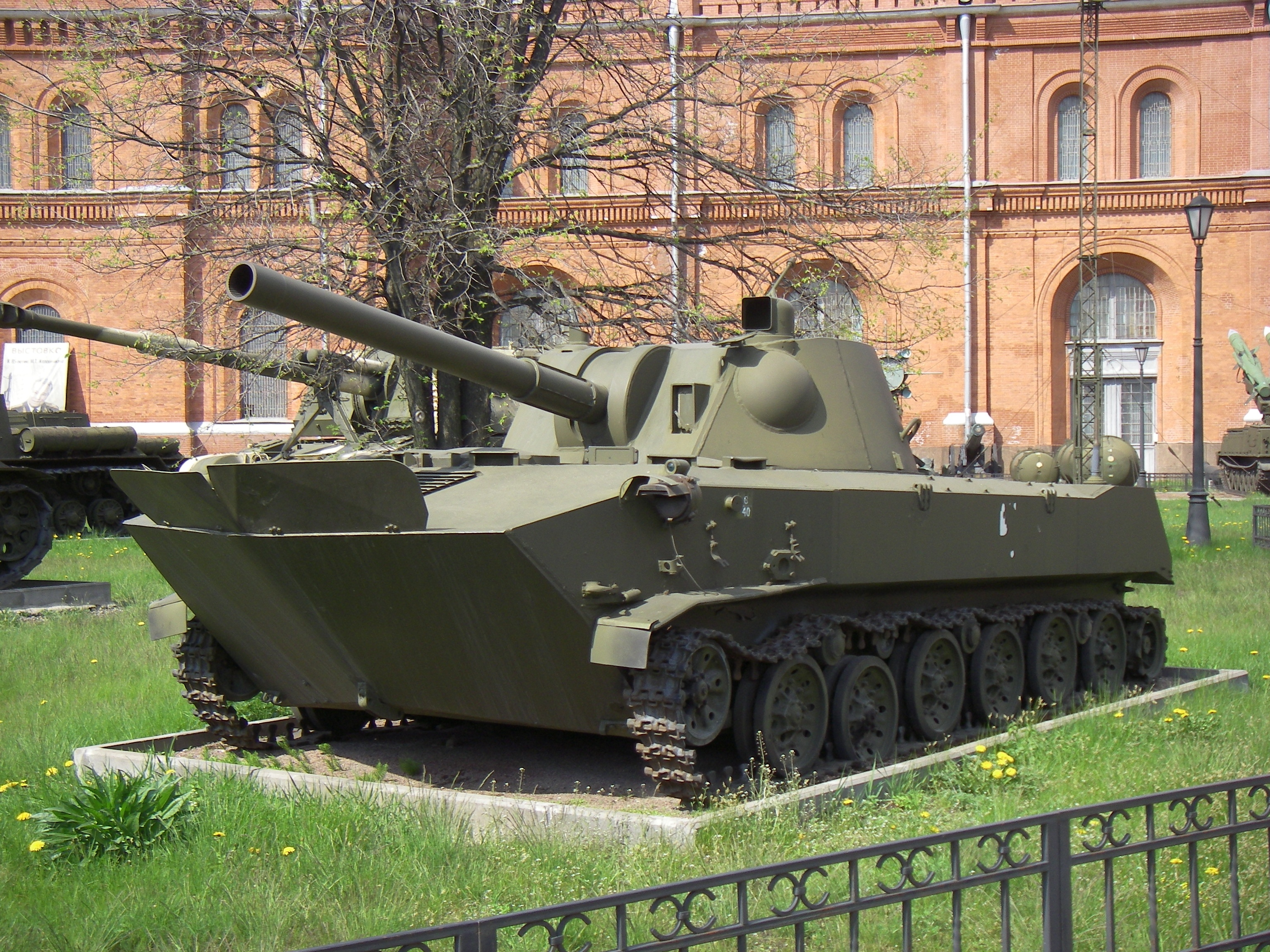 120-mm self-propelled gun 2S9 «Nona» in Saint-Petersburg Artillery museum